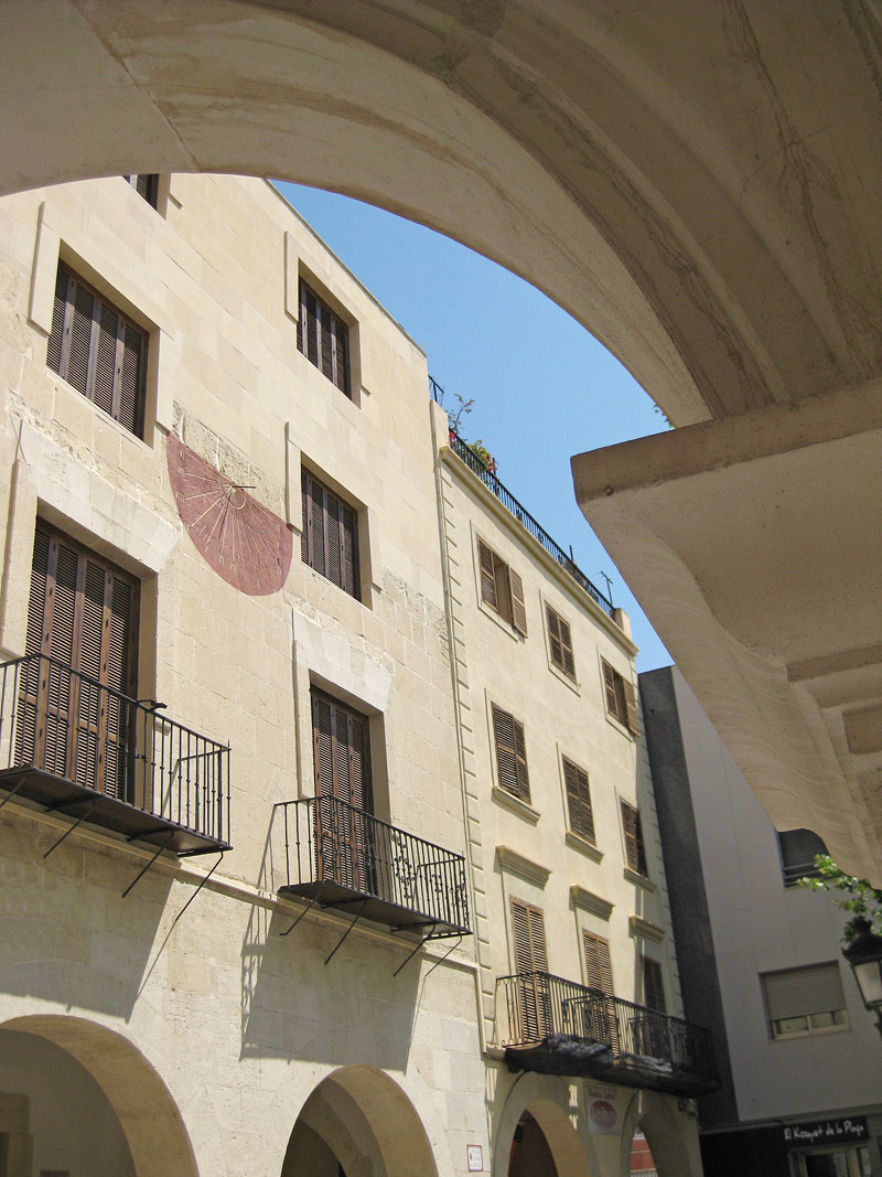 Main Square and former Town Hall of the Raval, neighbourhood of Elche, Valencian Country, Spain. Plaça Major de la Vila del Raval, amb l'antic ajuntament, al barri del Raval, Elx, País Valencià.